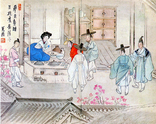 "Holding a drinking party" (transliteration:Jusa geobae) from Hyewon pungsokdo by 19th-century Korean painter, Hyewon. Original stored at Gansong Art Museum in Seoul, South Korea